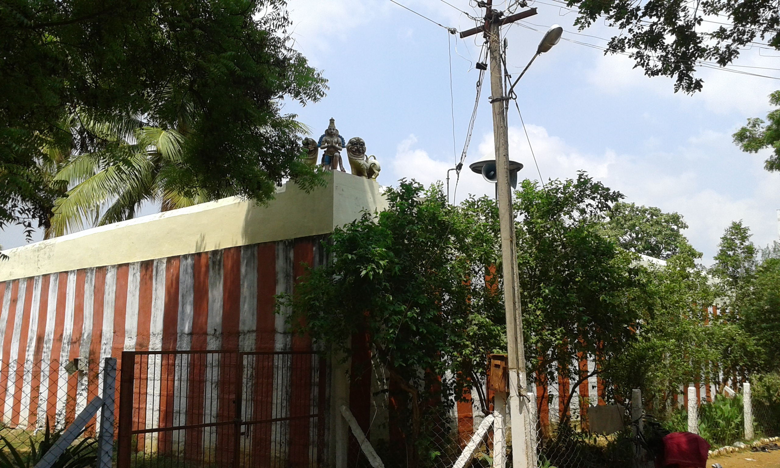 Aravinda Lochanar temple